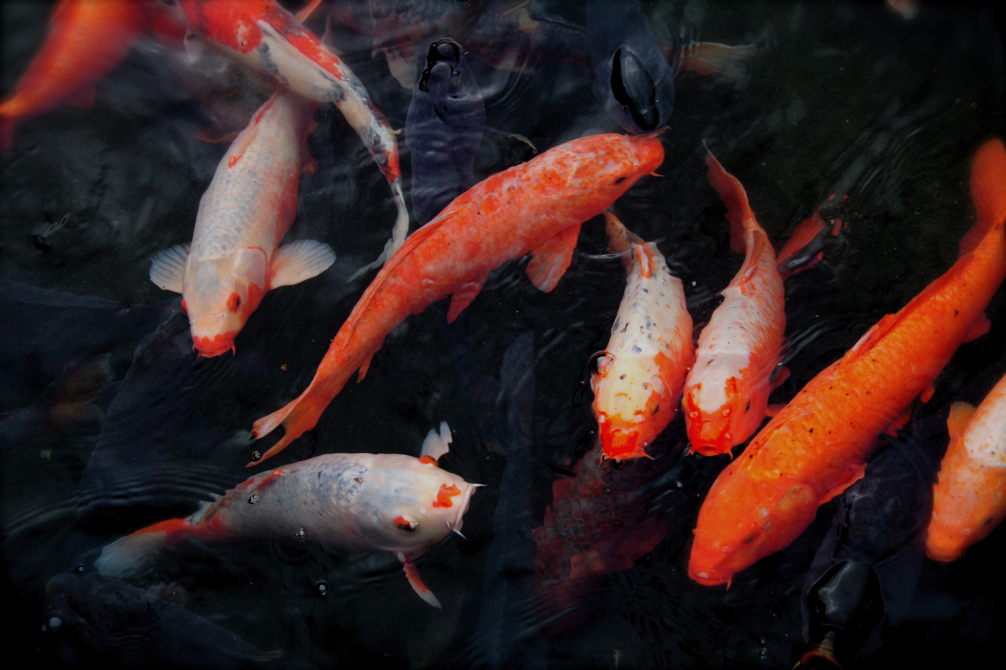 Taken in Tokyo, Japan, in 2007 Zen Garden, at the Hotel New Otani, Tokyo